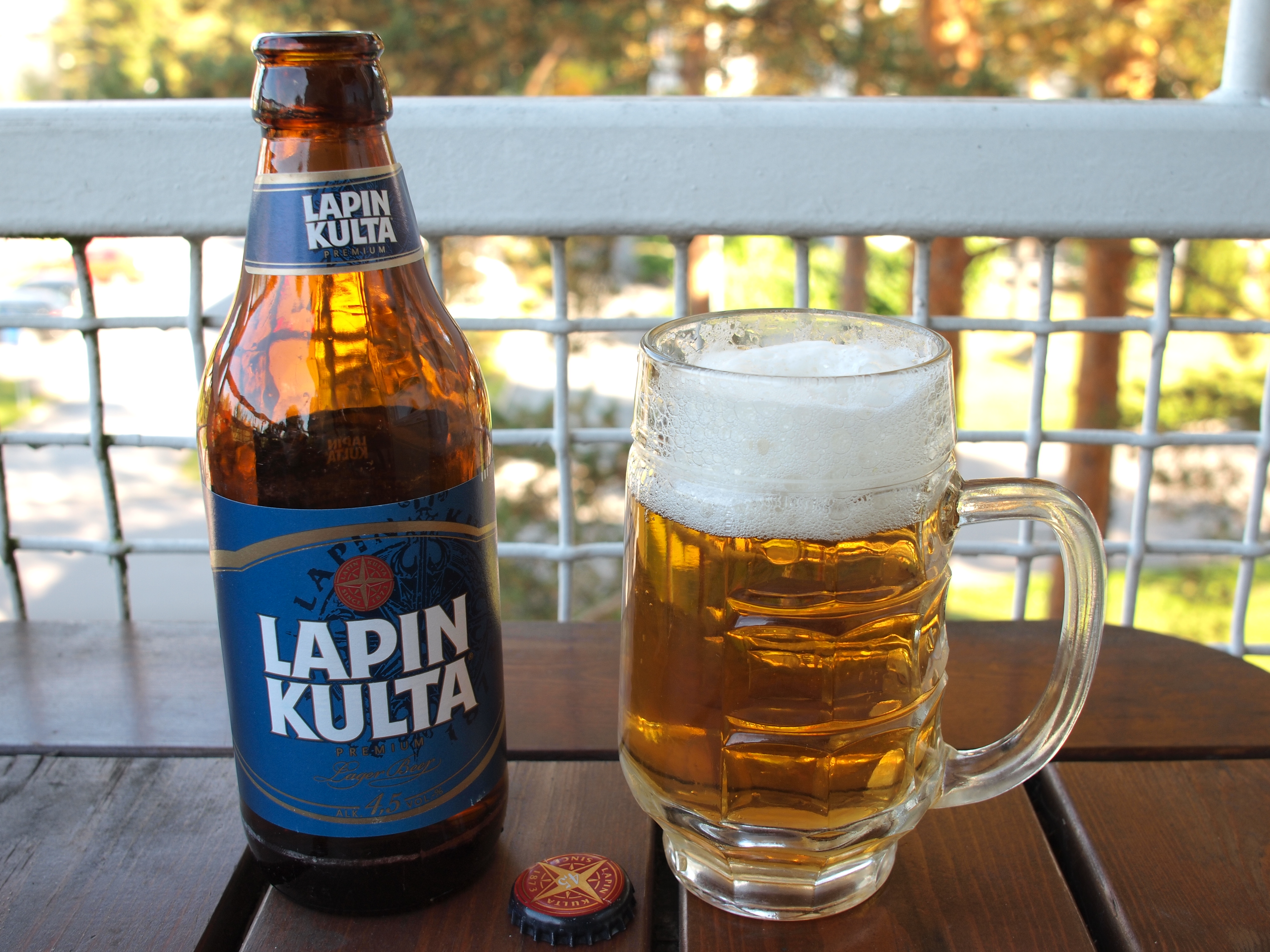 A 33-centilitre bottle of Lapin Kulta beer poured into a glass.